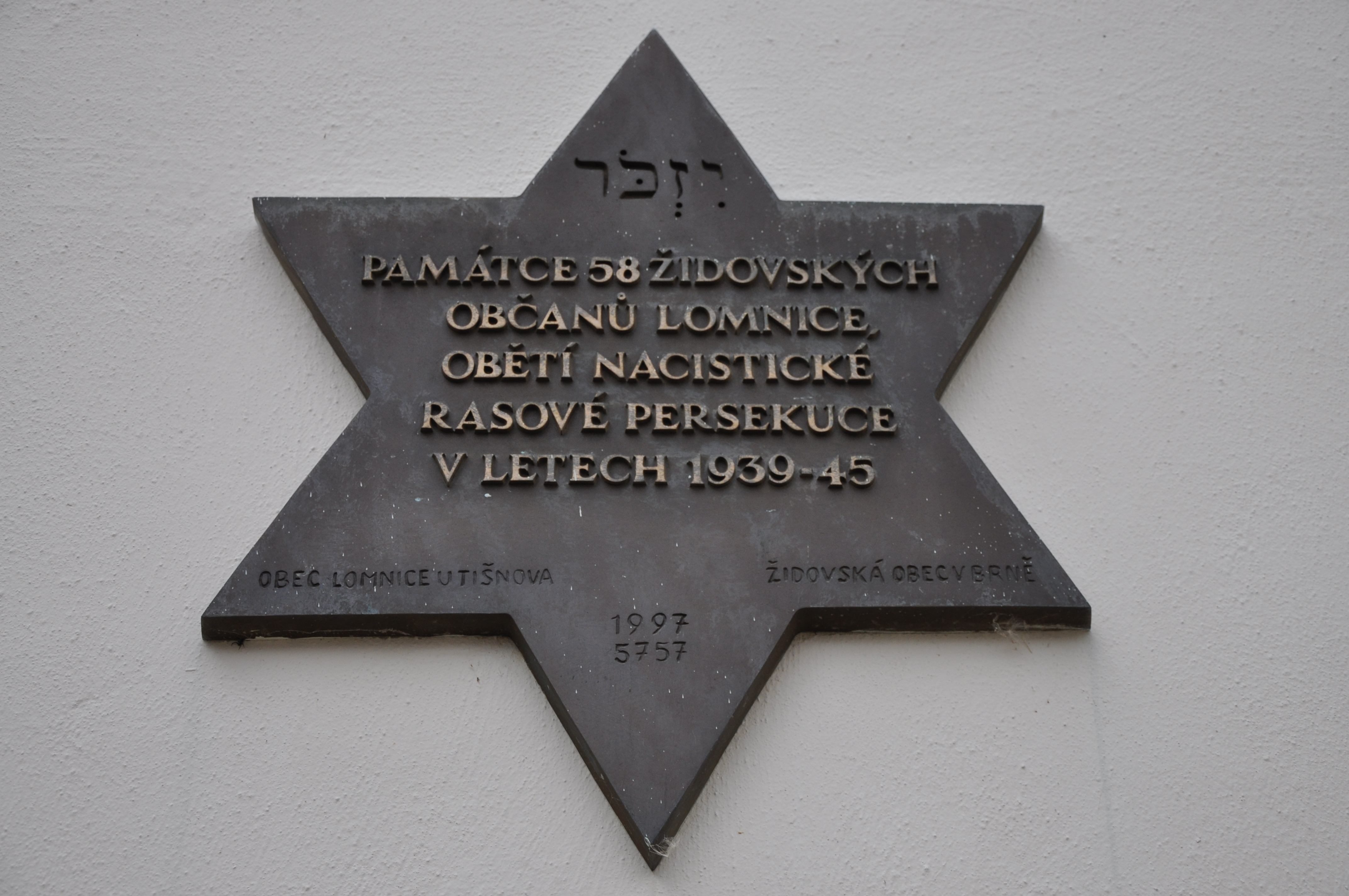 Lomnice, Brno-Country District, Czechia.